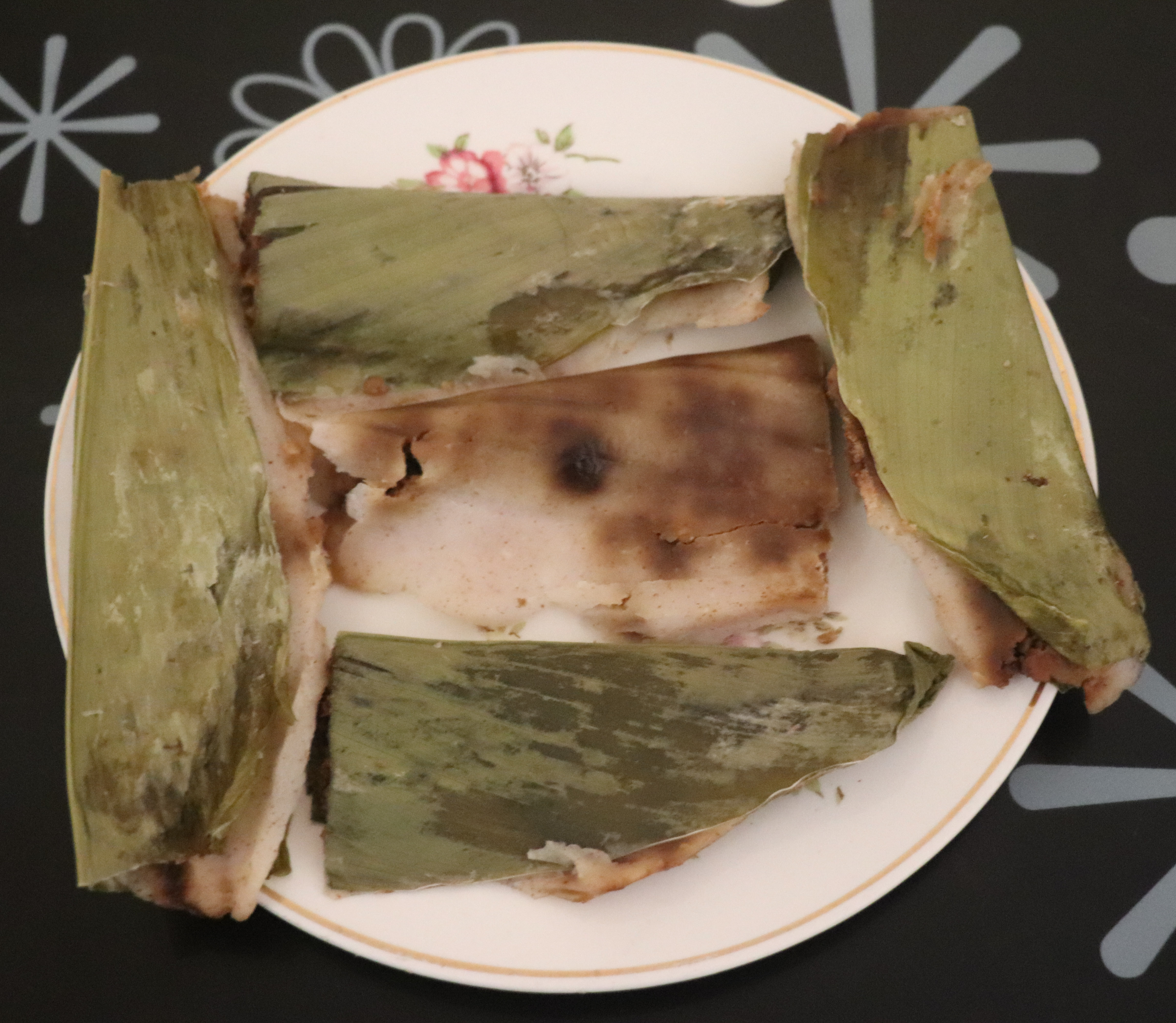 Patoleo (singular: Patoli) are rice cakes stuffed with palm jaggery steamed in turmeric leaves. These sweets are prepared every year on the 15th of August by the Goan Catholic community to celebrate the Feast of the Assumption of the Blessed Virgin Mary.